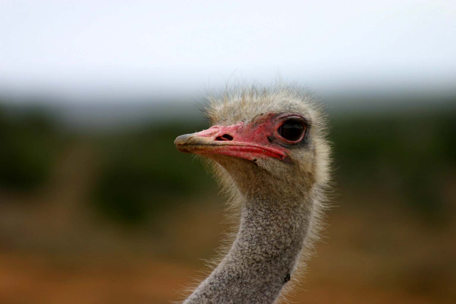 A wild Ostrich in the Addo Elephant Park, South Africa